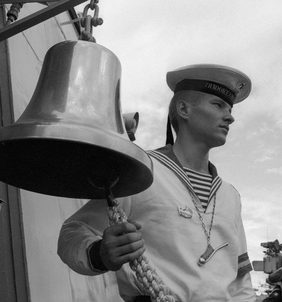 “Duty Seaman Rings the Bells”. Pacific Fleet: a duty seaman ringing the bells.